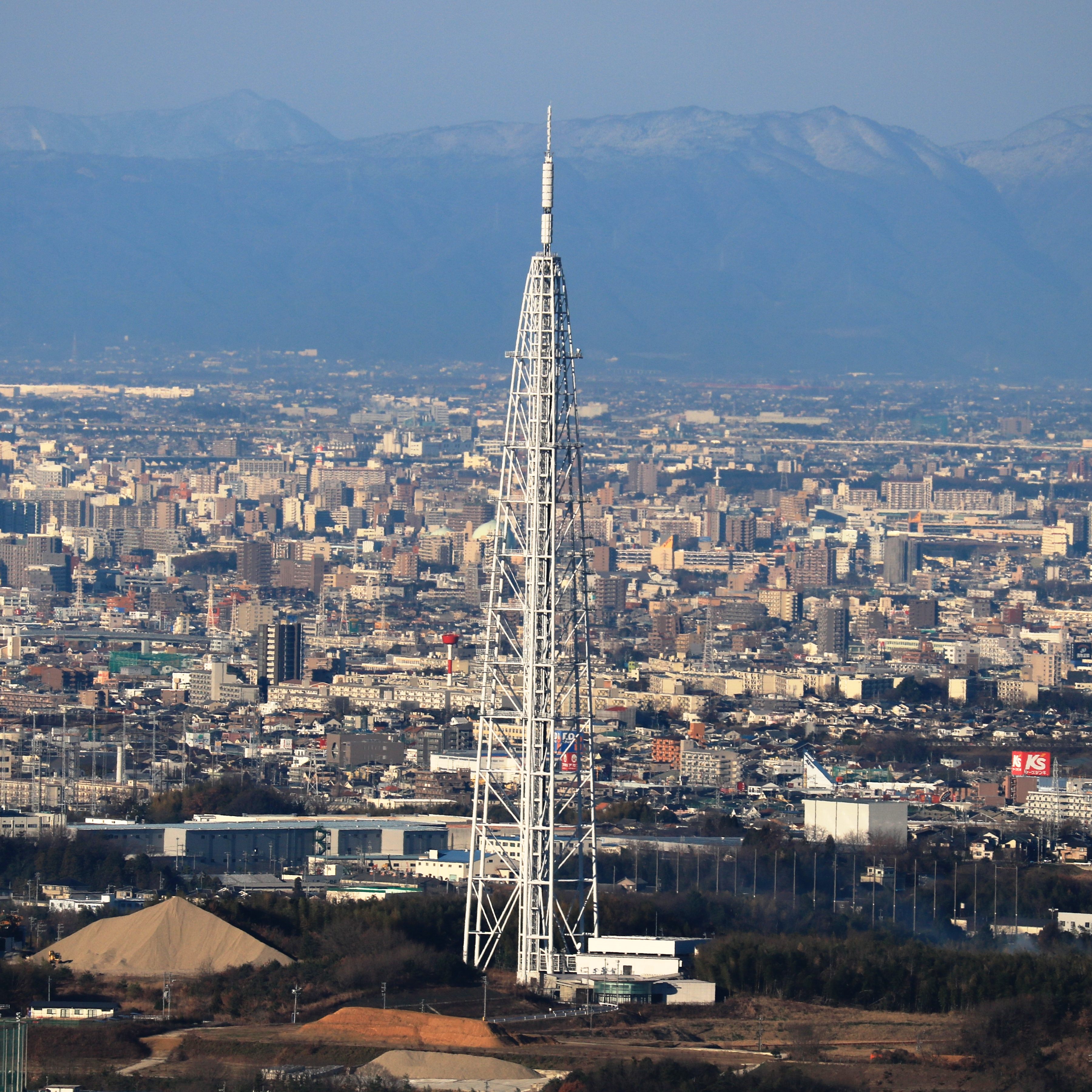 Seto Digital Tower seen from Mount Monomi in Kaisho Forest, Seto, Aichi prefecture, Japan.